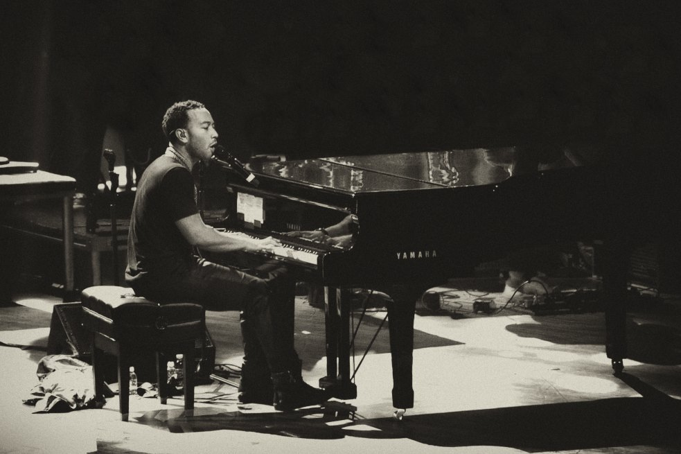 John Legend performing in MSU Auditorium at Michigan State University on November 24, 2008 in East Lansing, Michigan.